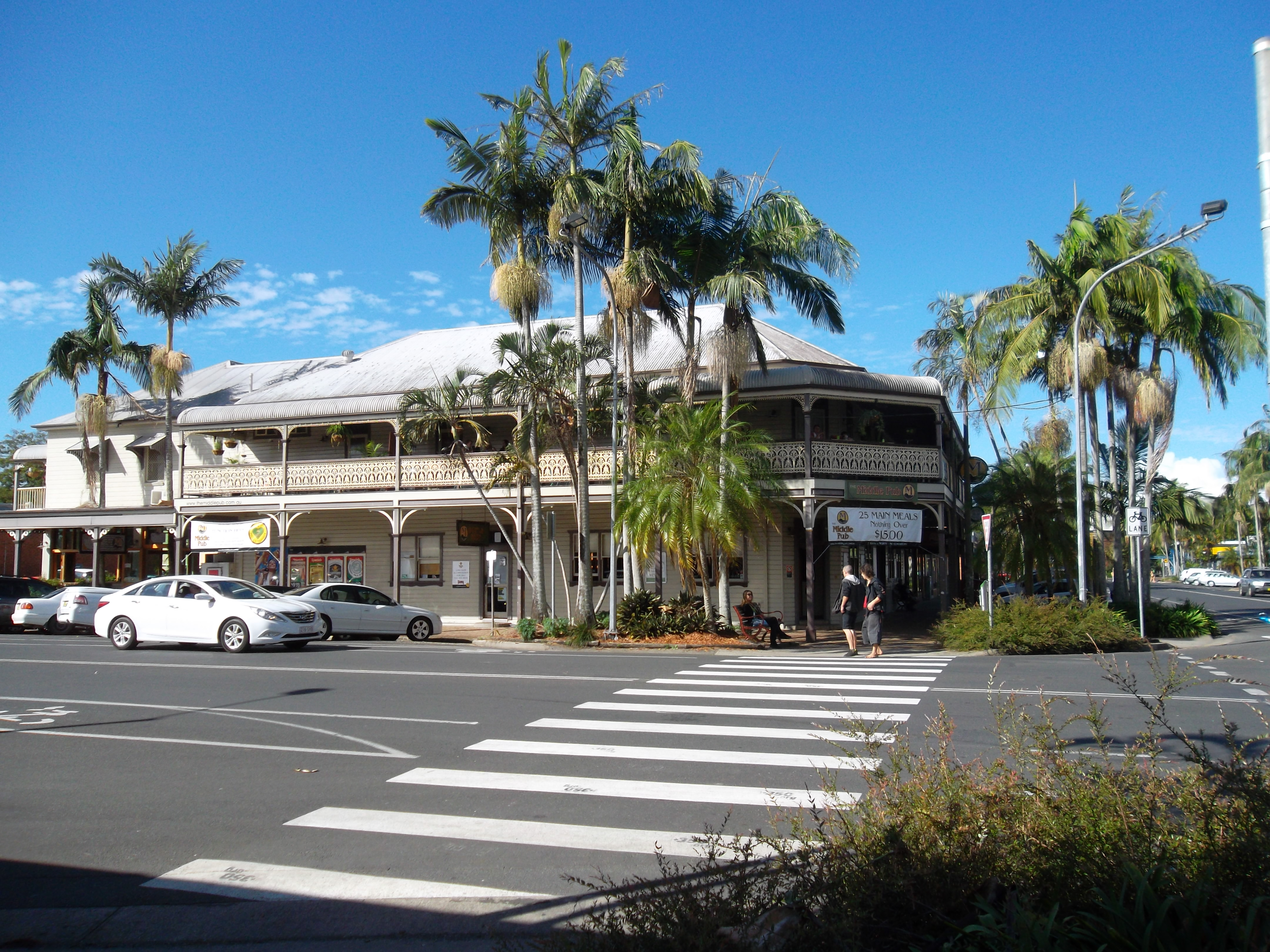 The Middle pub, Mullumbimby, NSW. The pub is on the northwest corner of Burringbar and Stuart Streets.